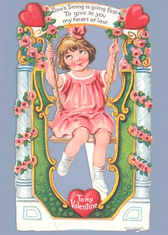 Scan of a Valentine greeting card circa 1920.